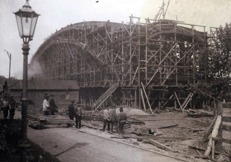 Construction of Peter the Great Bridge. 1910.